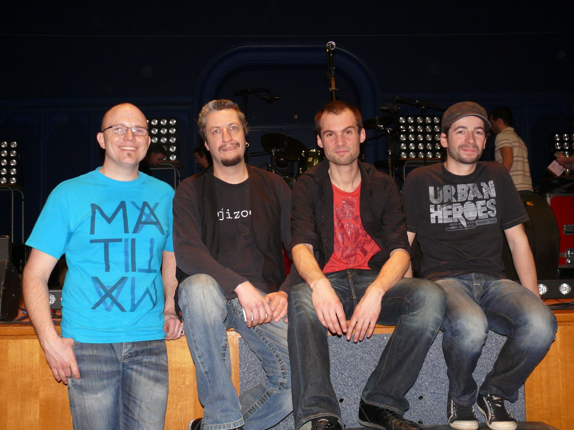 The Christian rock band P.U.S.H. in Lille (Nord, France).